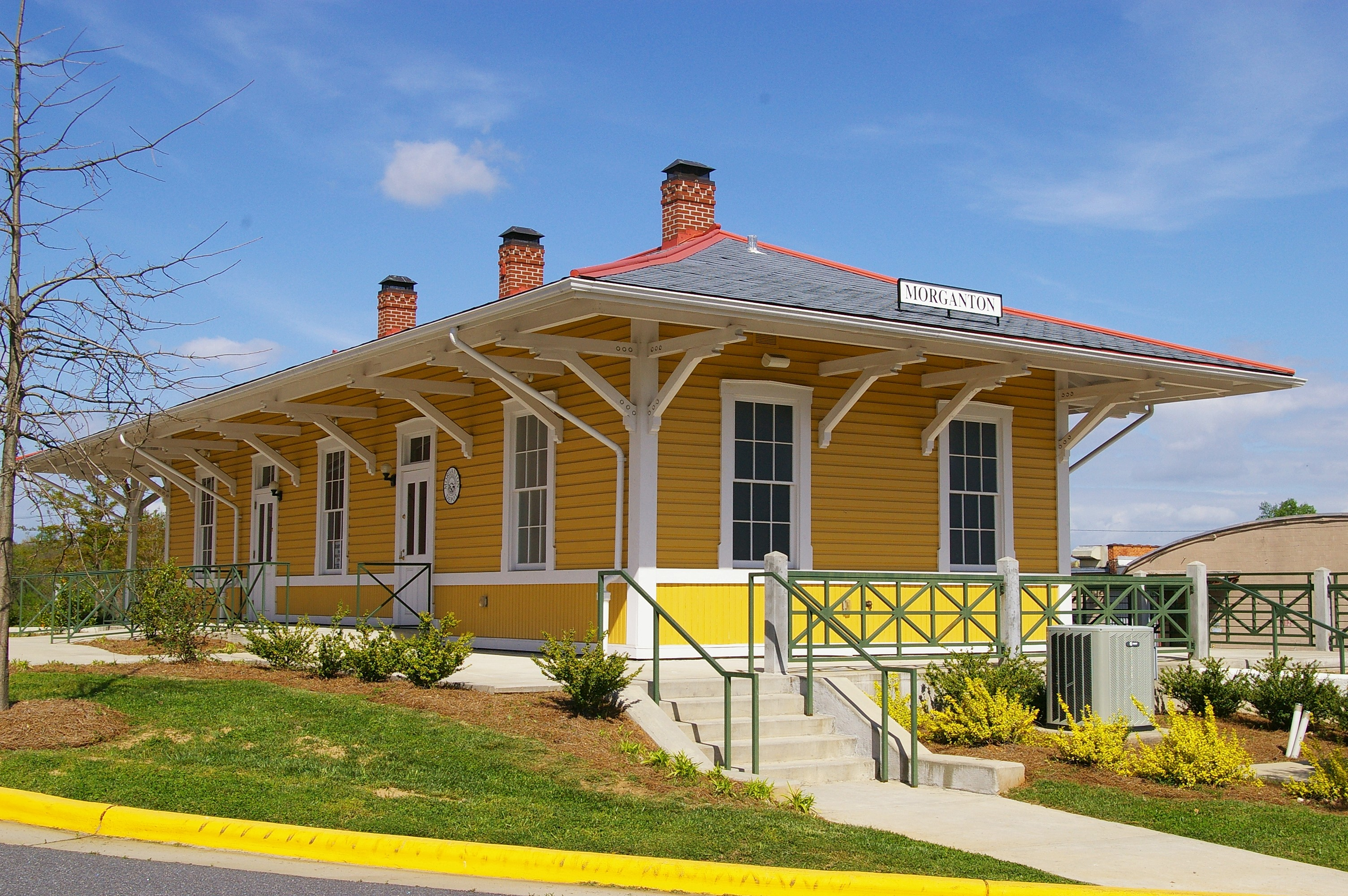 Train Depot, Morganton, North Carolina.